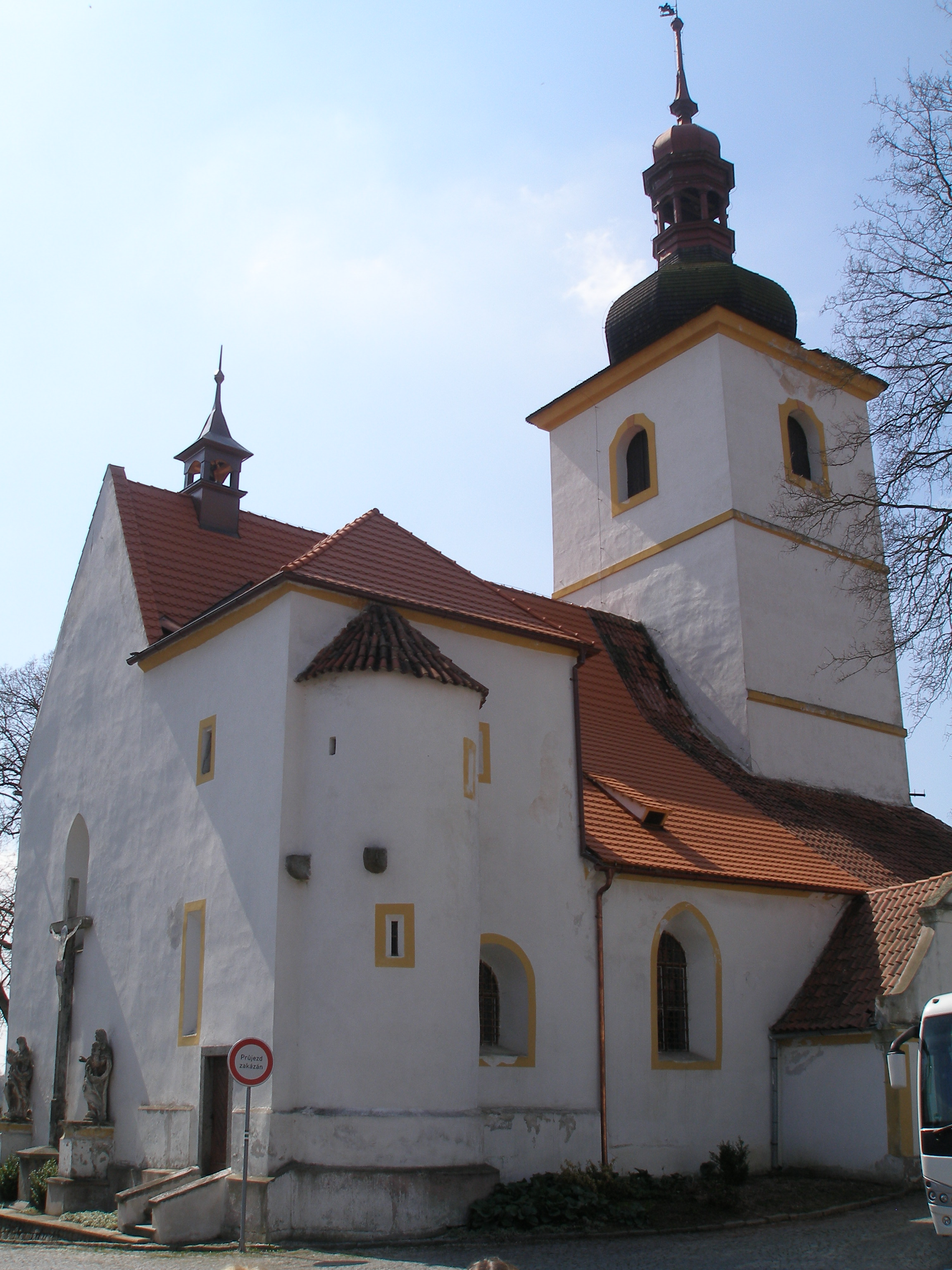 St. Martin's church, Northern view, Radomyšl